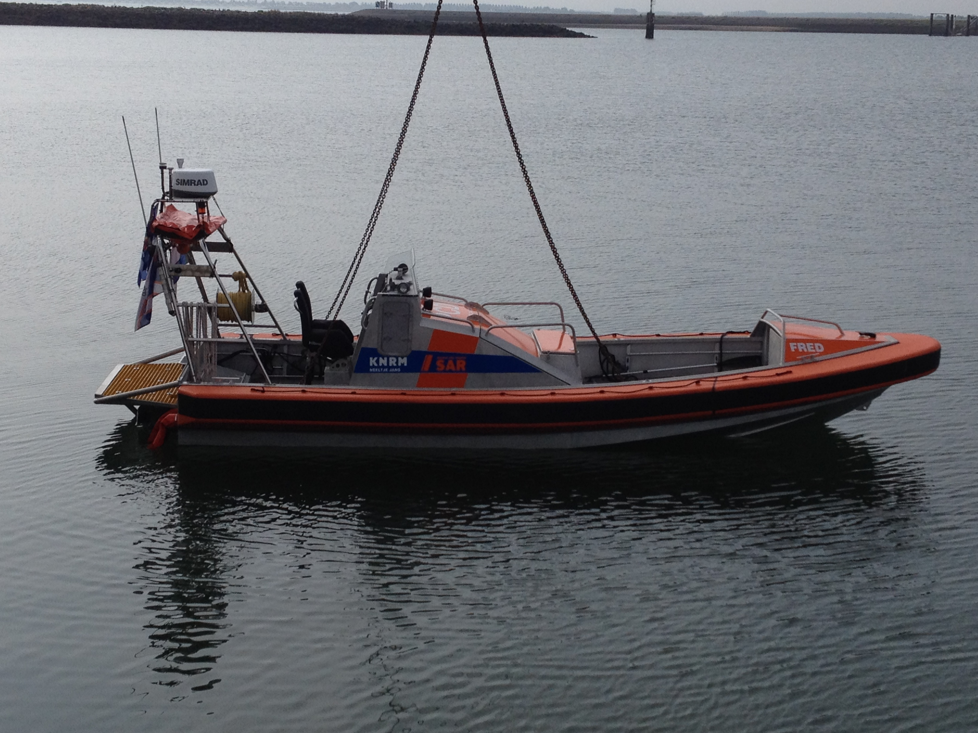 KNRM - Nikolaas I - FRED